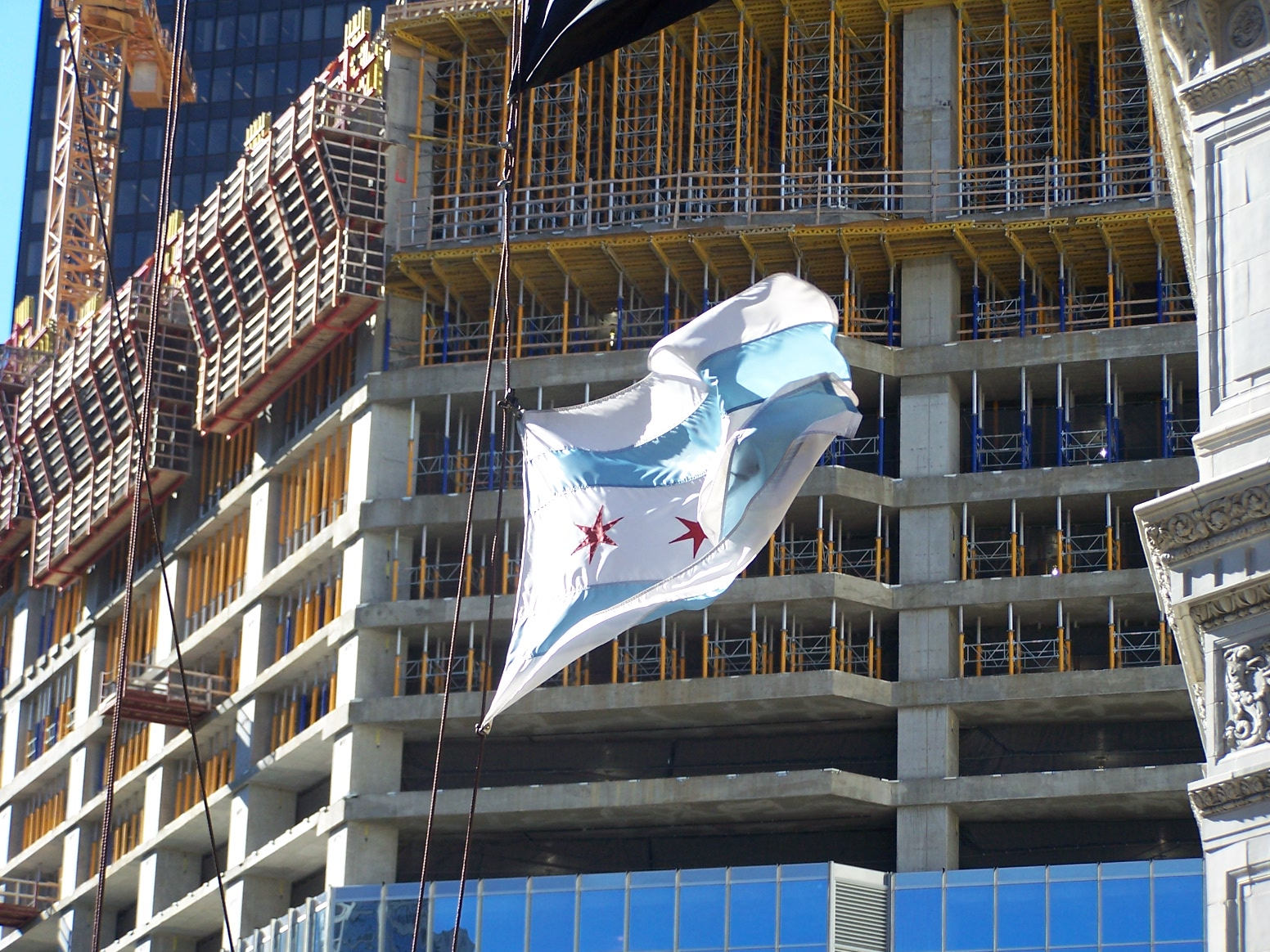 Flag of Chicago in Chicago.